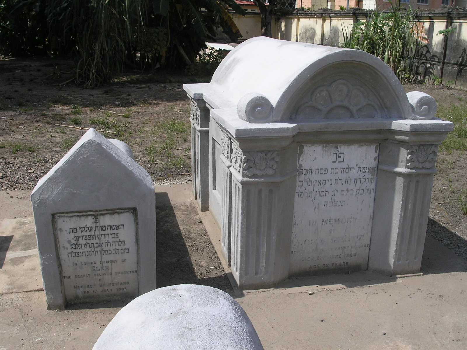 Image of the Jewish Cemetery in George Town, Penang. It is one of the oldest Jewish cemeteries in the Asian region.